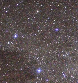 The Southern Cross from the International Space Station.